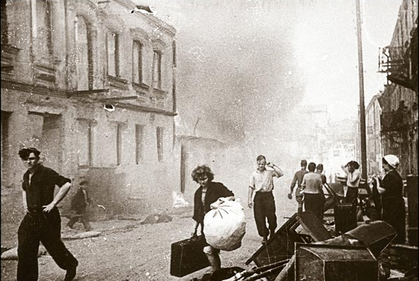 Civilians carry belongings out of burning houses (Minsk July 1944)